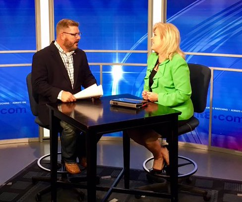 speaking with @davis_diana about FIRST disaster preparedness expo Saturday from 10-3 at St Bernard's auditorium. Free and open to public!